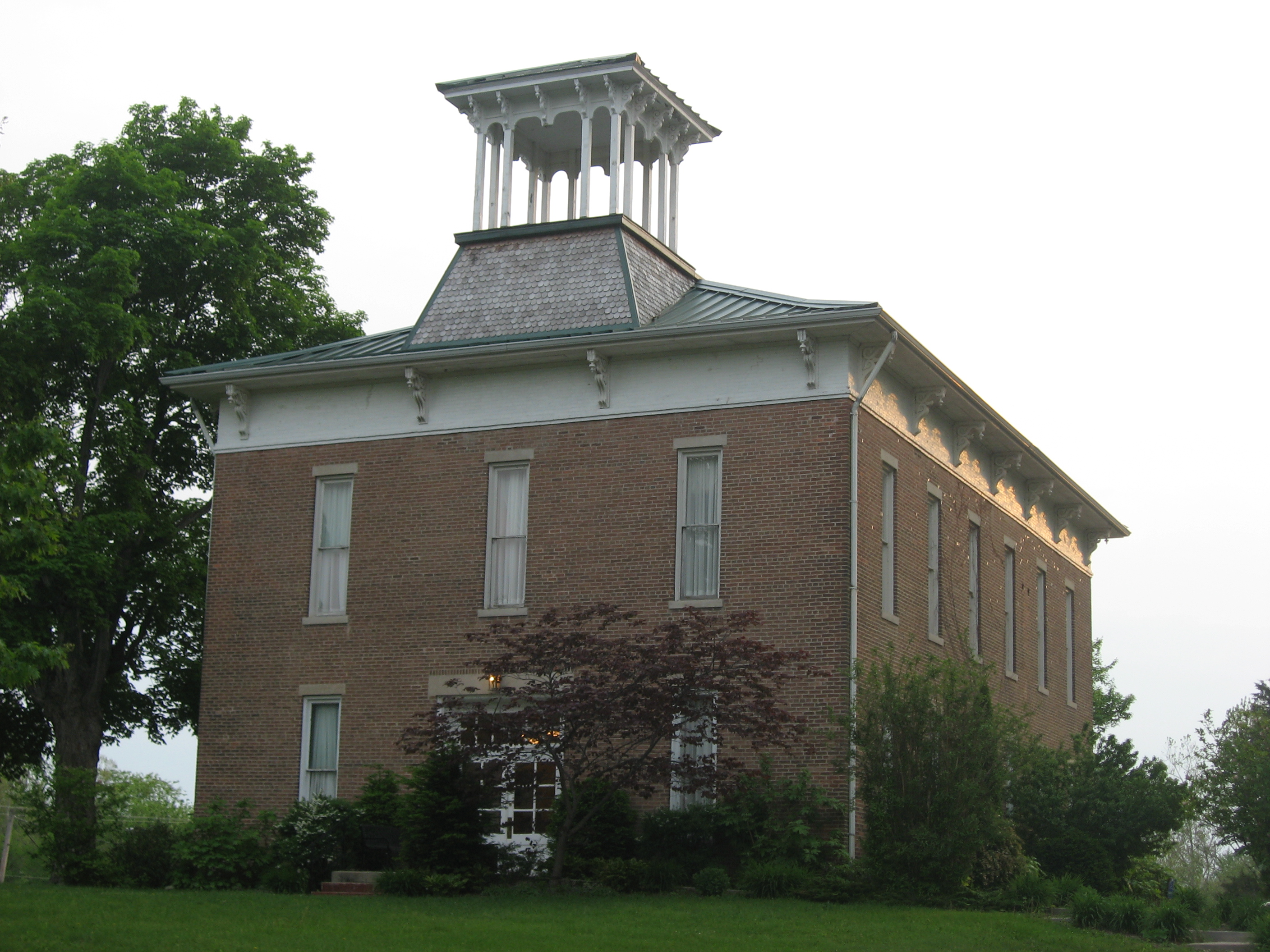 Northern side and front of Normal Hall, located on the northwestern corner of the junction of W. Main (State Road 234) and Harrison Streets in Ladoga, Indiana, United States. Built in 1878, it is listed on the National Register of Historic Places.